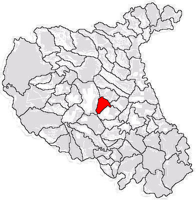 Limits of the Commune of Broşteni